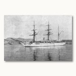 Greek steam barqe “Aheloos”